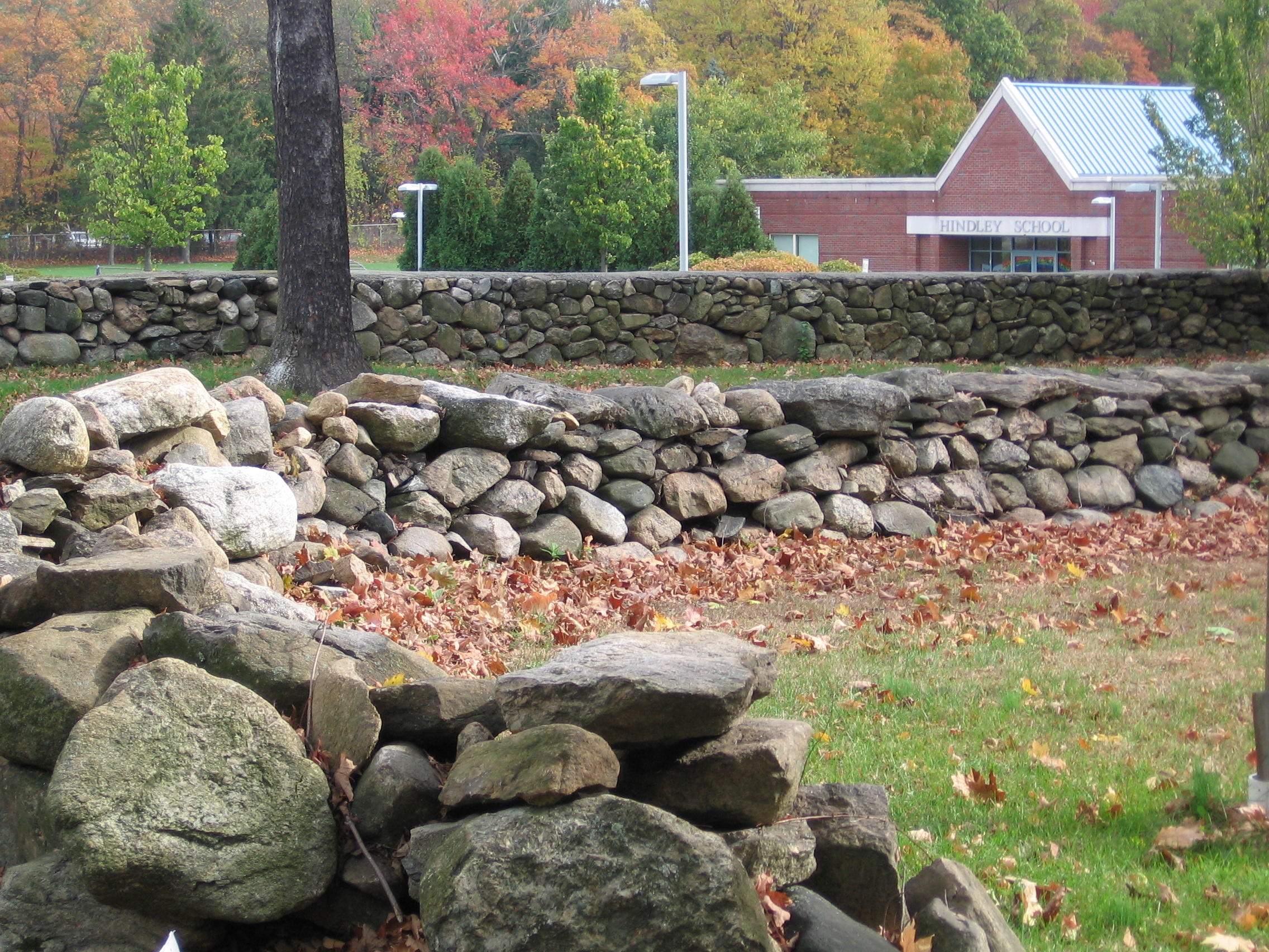 Hindley School in Darien, Connecticut showing stone walls where patriots died in a skirmish with tories during the American Revolution